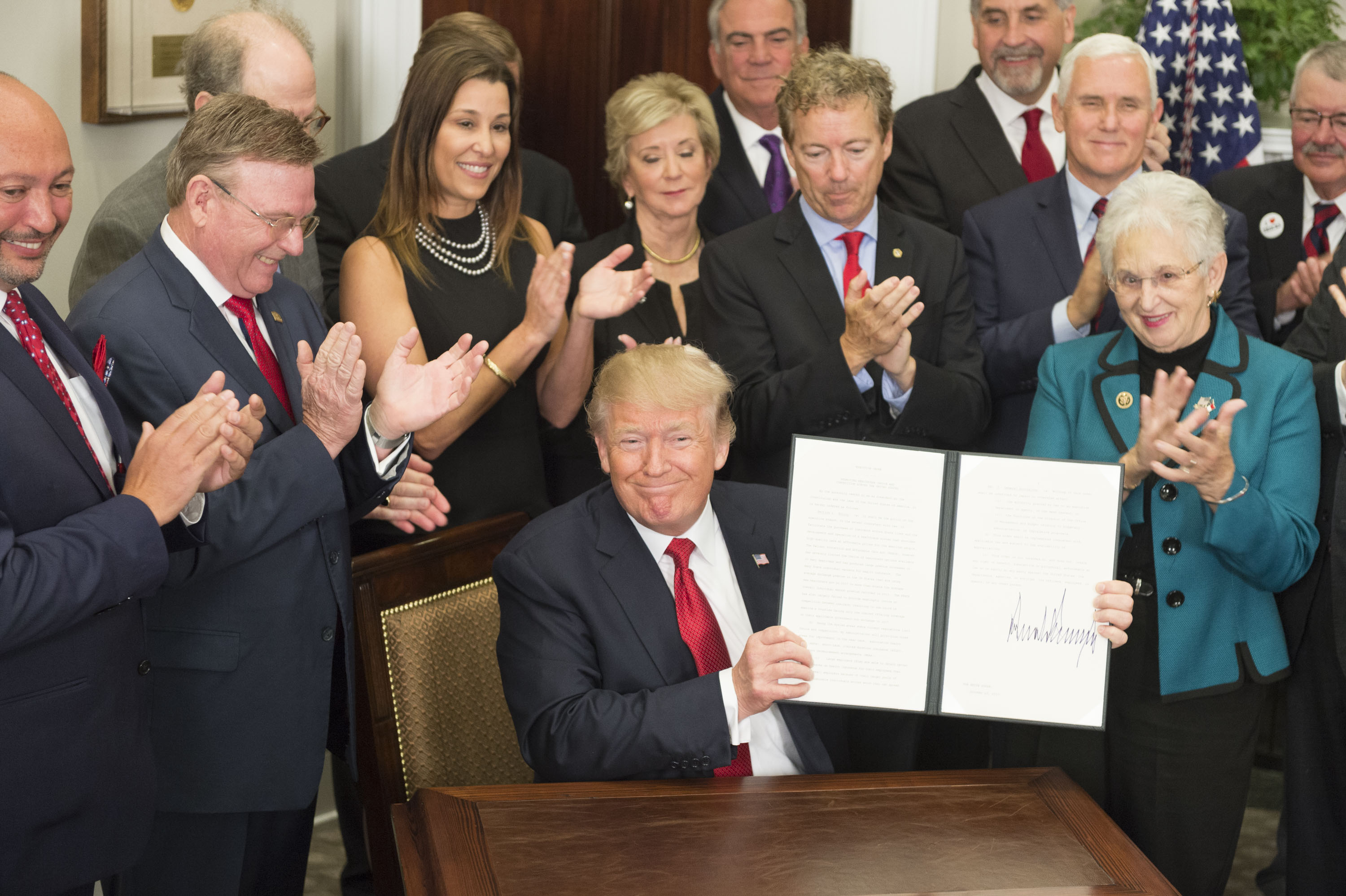 President Donald J. Trump signs the Executive Order to Promote Healthcare Choice and Competition | October 12, 2017 (Official White House Photo by Andrea Hanks)